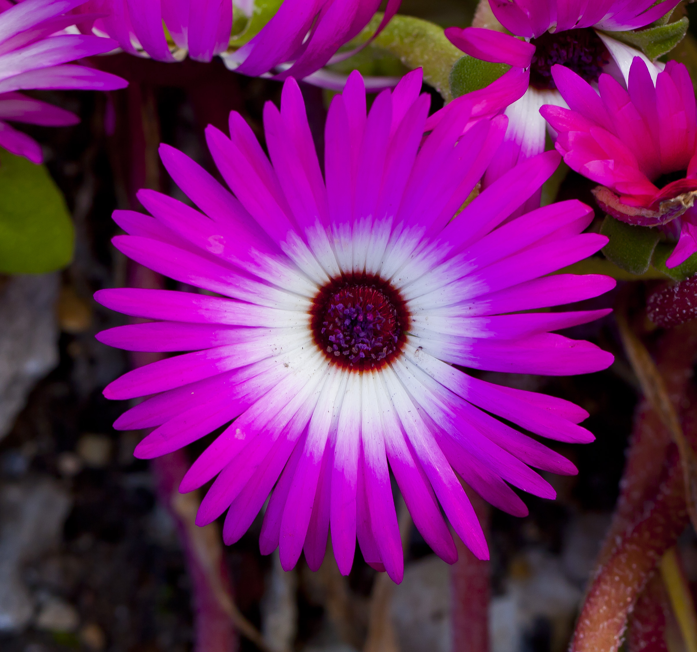 Dorotheanthus bellidiformis, center of Tallinn, Estonia